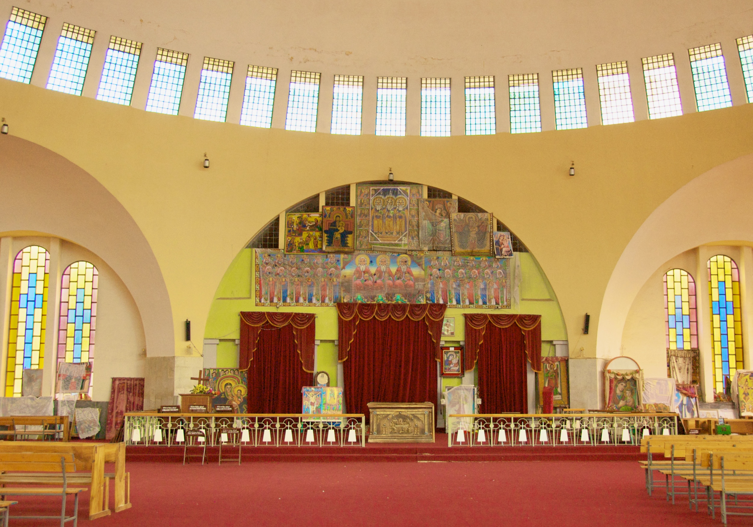 I love the pistachio color of the wall in the central arch. It really sets off the art and the draperies over what I assume are entrances to the Holy of Holies. I also admire the rail, with its midcentury simplicity and subtle Axumite motifs. One thing I wonder about is the pews. They seem sparse, and their design and construction isn't on a par with the rest of the building. Perhaps there's less emphasis on seating in Ethiopian Orthodox Churches than, say, in Colonial-era churches in New England, where the design and execution of pews rivals the work of master cabinetmakers. Or, it could be the original pews have been removed since the building was consecrated.